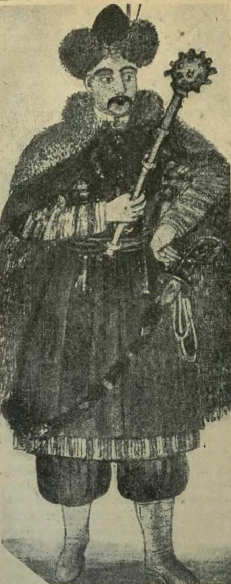 Portrait of Bohdan Khmelnytsky in Medvediv Monastery, the first half of the 19th century.